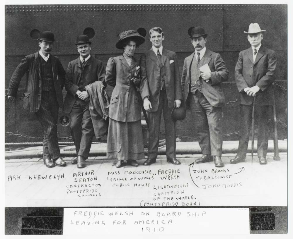 Freddie Welsh. lightweight boxing champion of the world at dockside. Incorrectly labelled as leaving for America in 1910. Welsh never travelled to America in 1910. Also woman in picture labelled as Miss Mackensie, when it actually looks very much like Kate Thomas, Welsh's sister and travel companion.